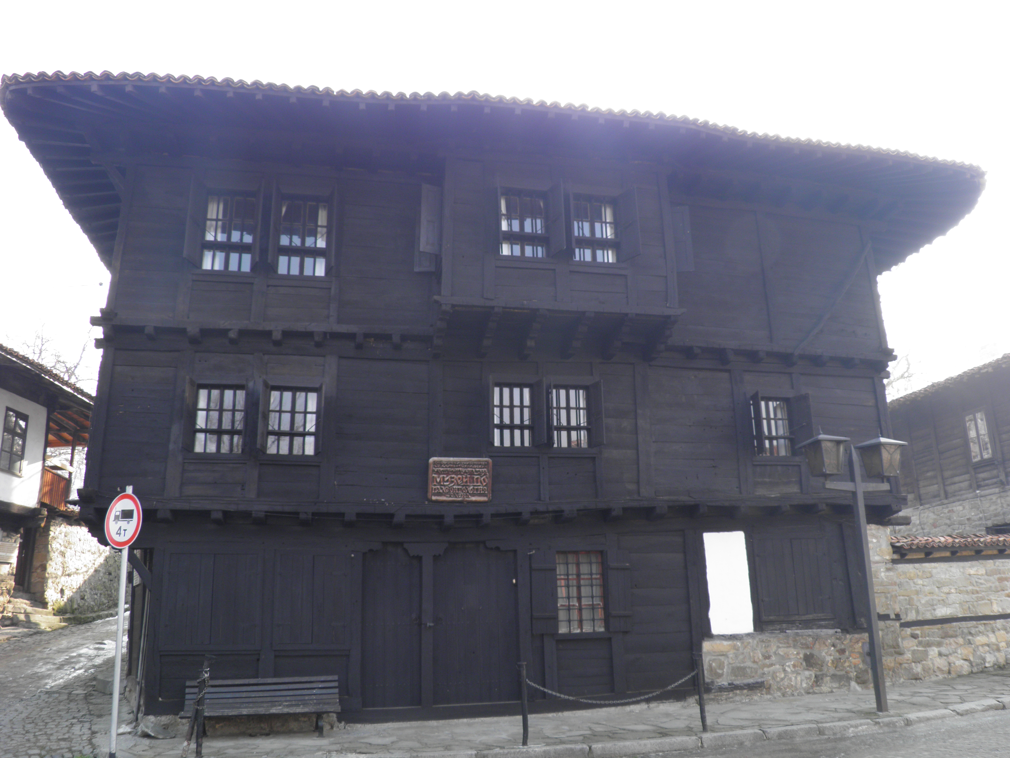 Museum in Elena,Bulgaria